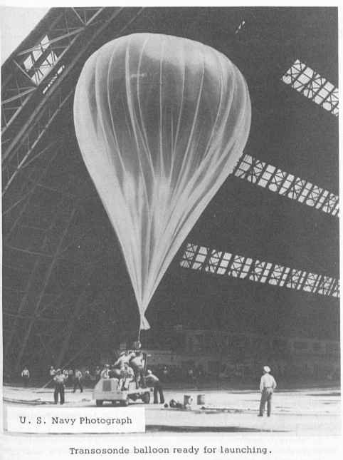 A transosonde ready for launch, taken by the United States Navy. Transosondes were meant to be constant altitude weather balloons which stayed aloft for long periods of time to track trajectories which could be helpful for nuclear fallout. They were experimented with in 1958.